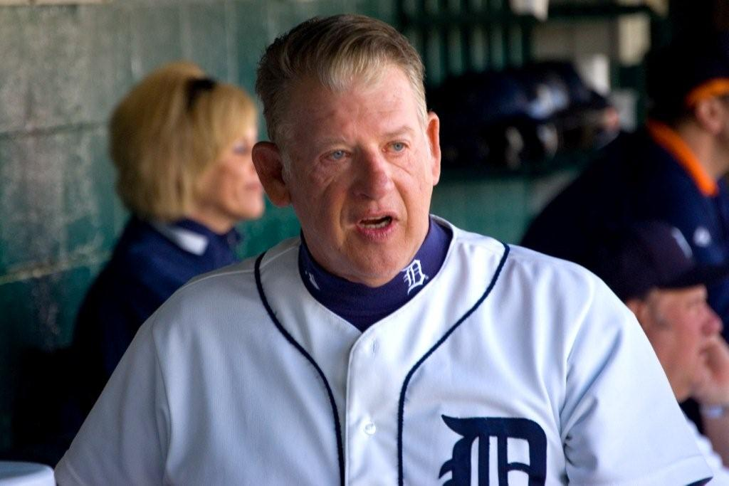 Former Detroit Tigers pitcher Mickey Lolich by Tom Hagerty for and